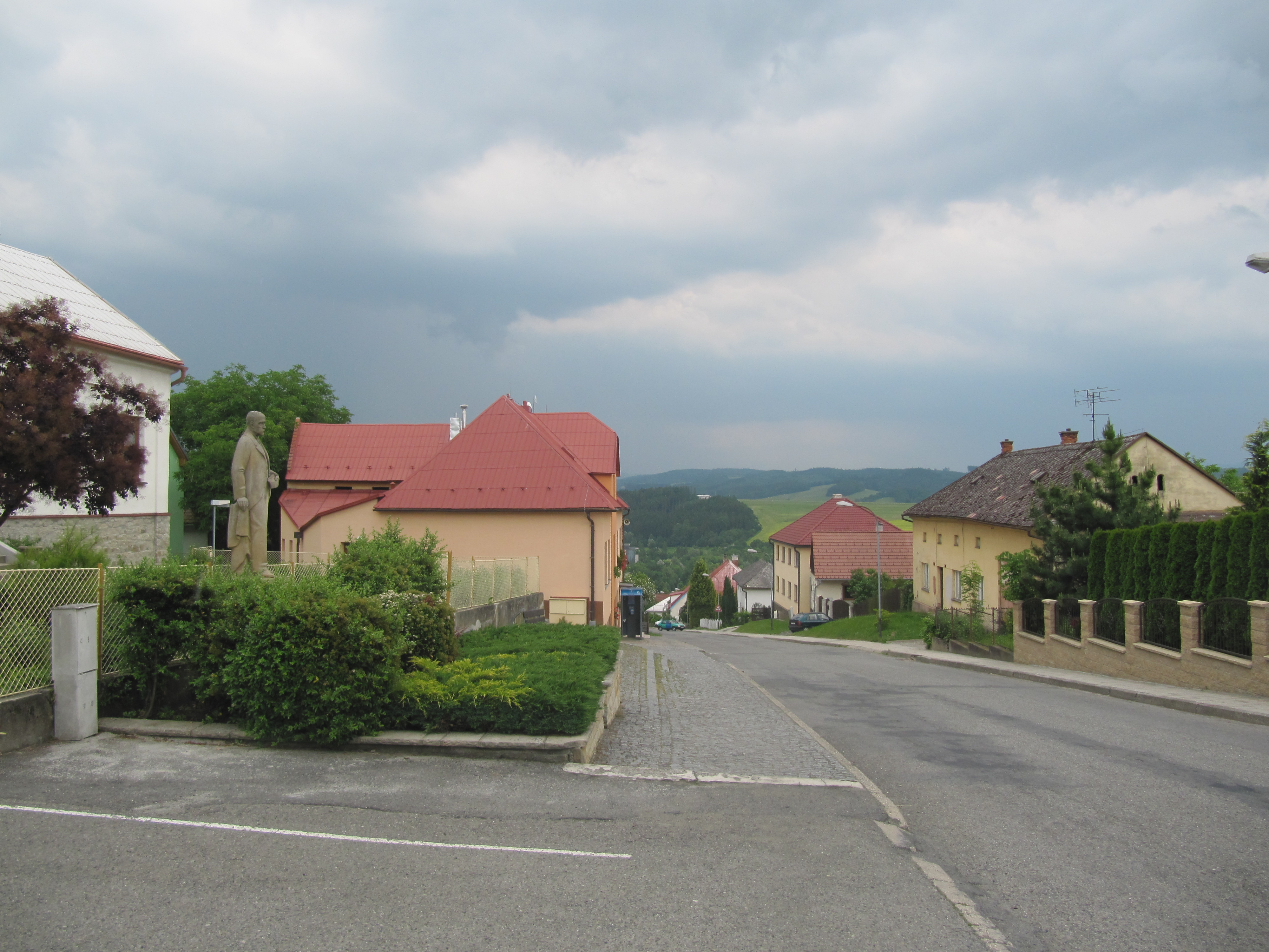 Březová (ZL)